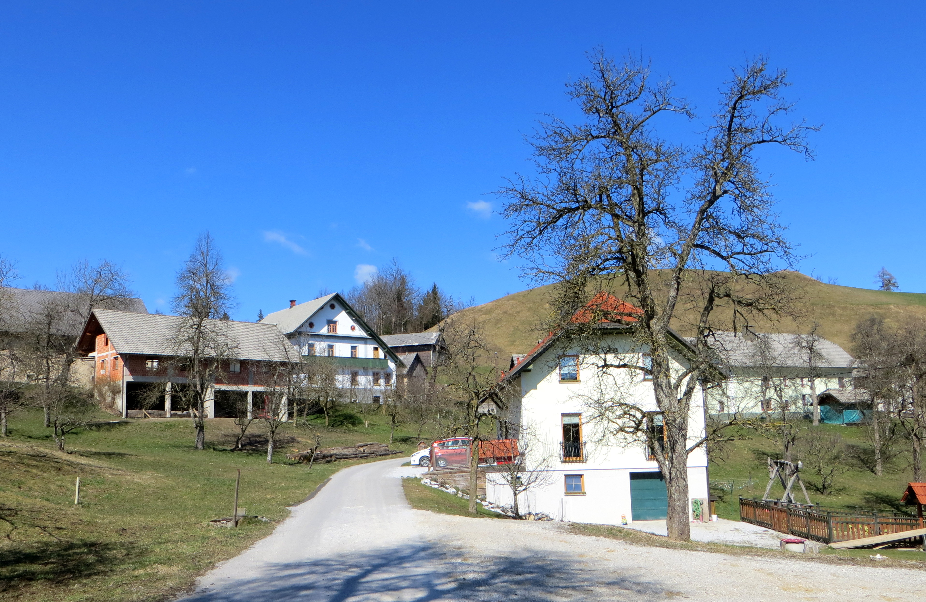 Vinharje, Municipality of Gorenja Vas–Poljane, Slovenia